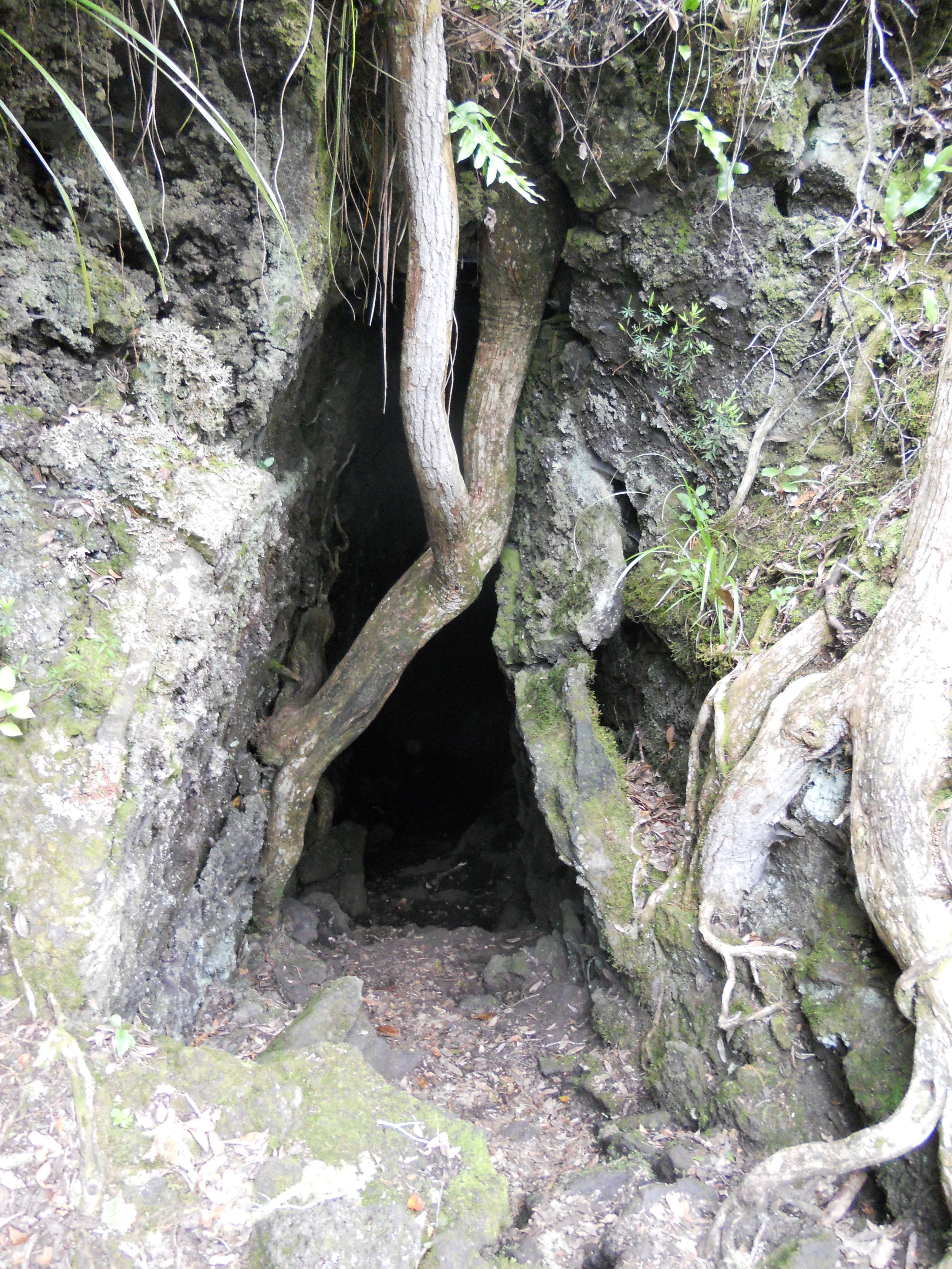 The opening to a lava tube on Rangitoto Island in New Zealand, partially obstructed by trees.